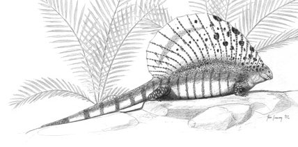 crop of file in file name